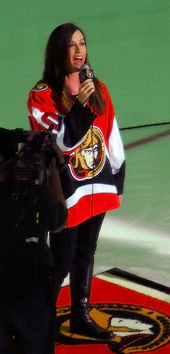 Alanis Morissette performing at the 2007 Stanley Cup playoffs This shot was Taken June 5th 2007 at the Stanly Cup Playoffs 2007 in Ottawa where Alanis sang both Anthems. For more pictures